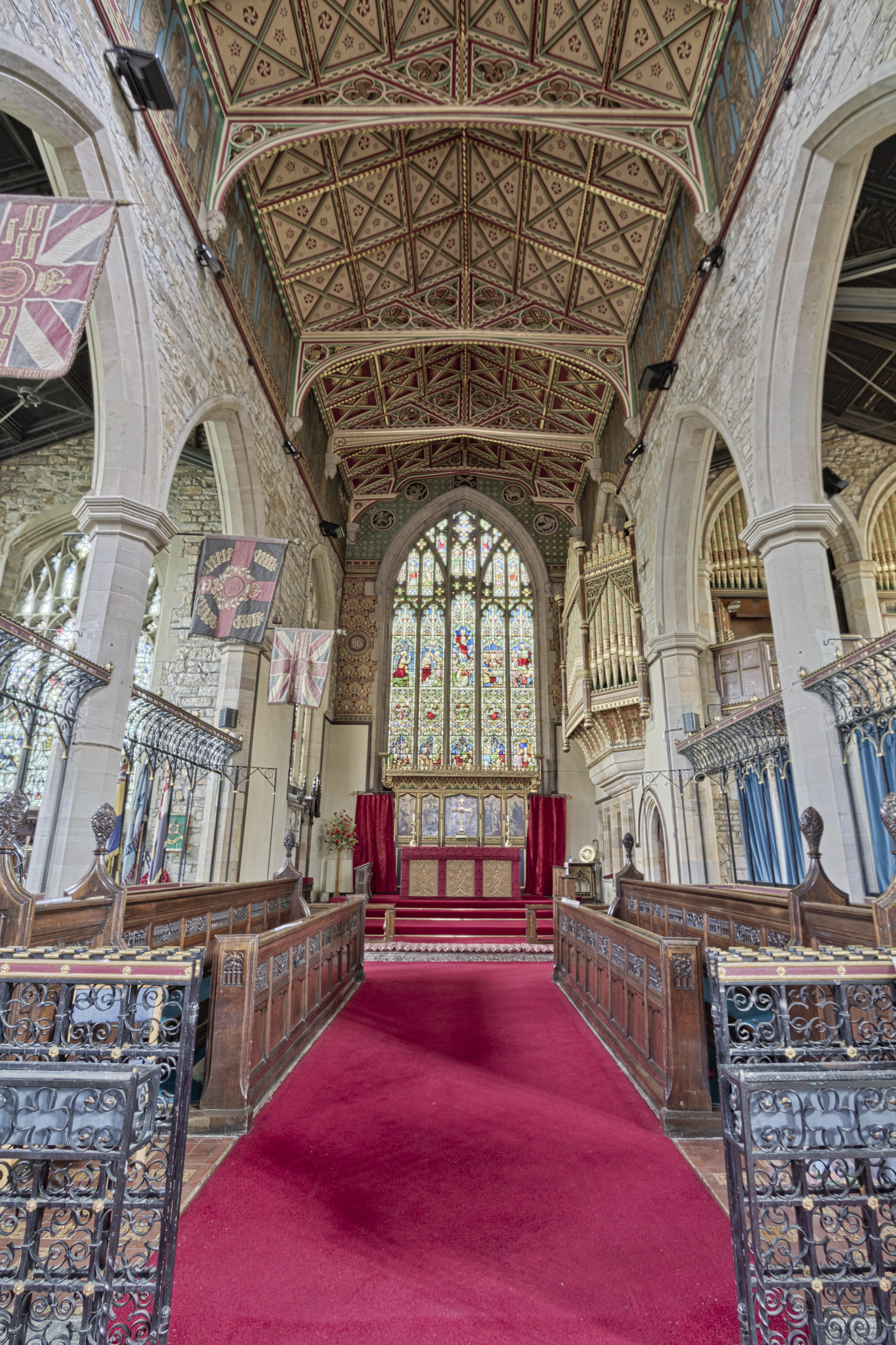 Here is an hdr photograph taken from St Peter's Church. Located in Burnley, Lancashire, England, UK.